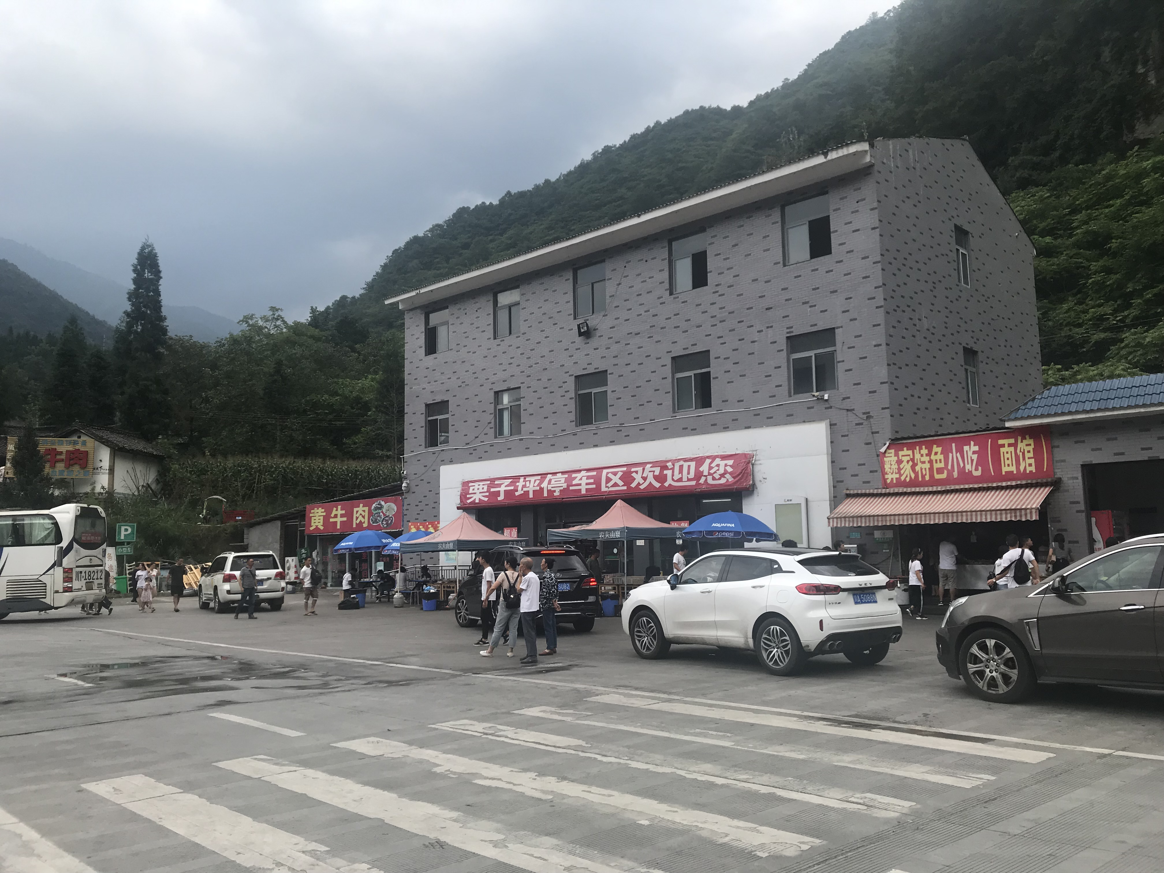 201908 Liziping Service Area of Jingkun Expressway